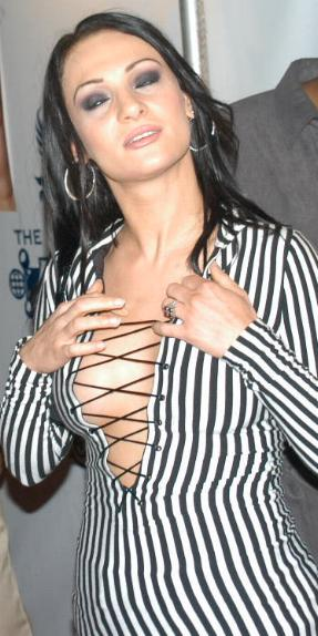 April 11 2007: Evil Angel Party.